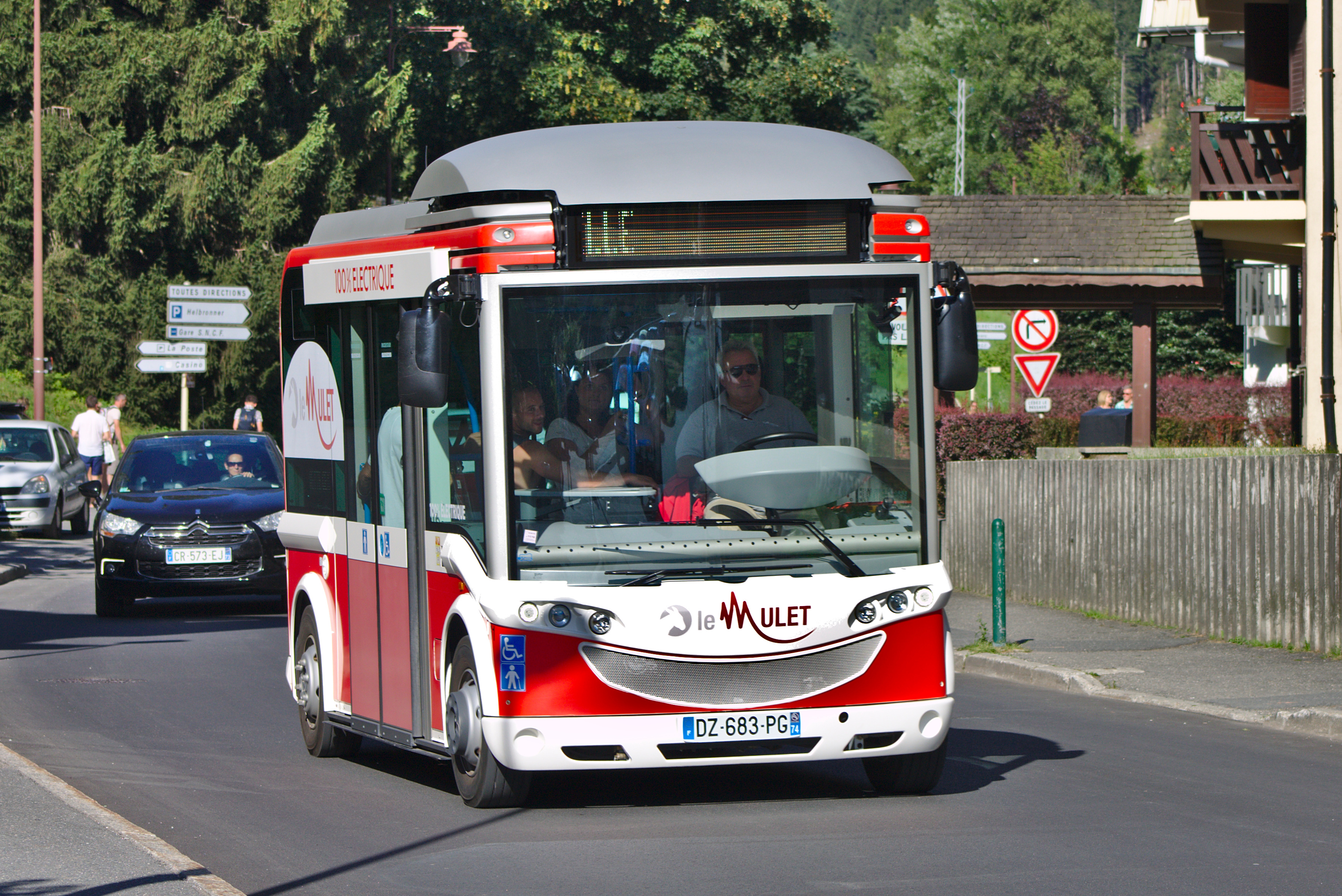 Byttery-powered midi-bus type Microbus made by the French manufacturer Gruau in use as a city-bus service named "Le Mulet" in Chamonix in the Rue Helbronner